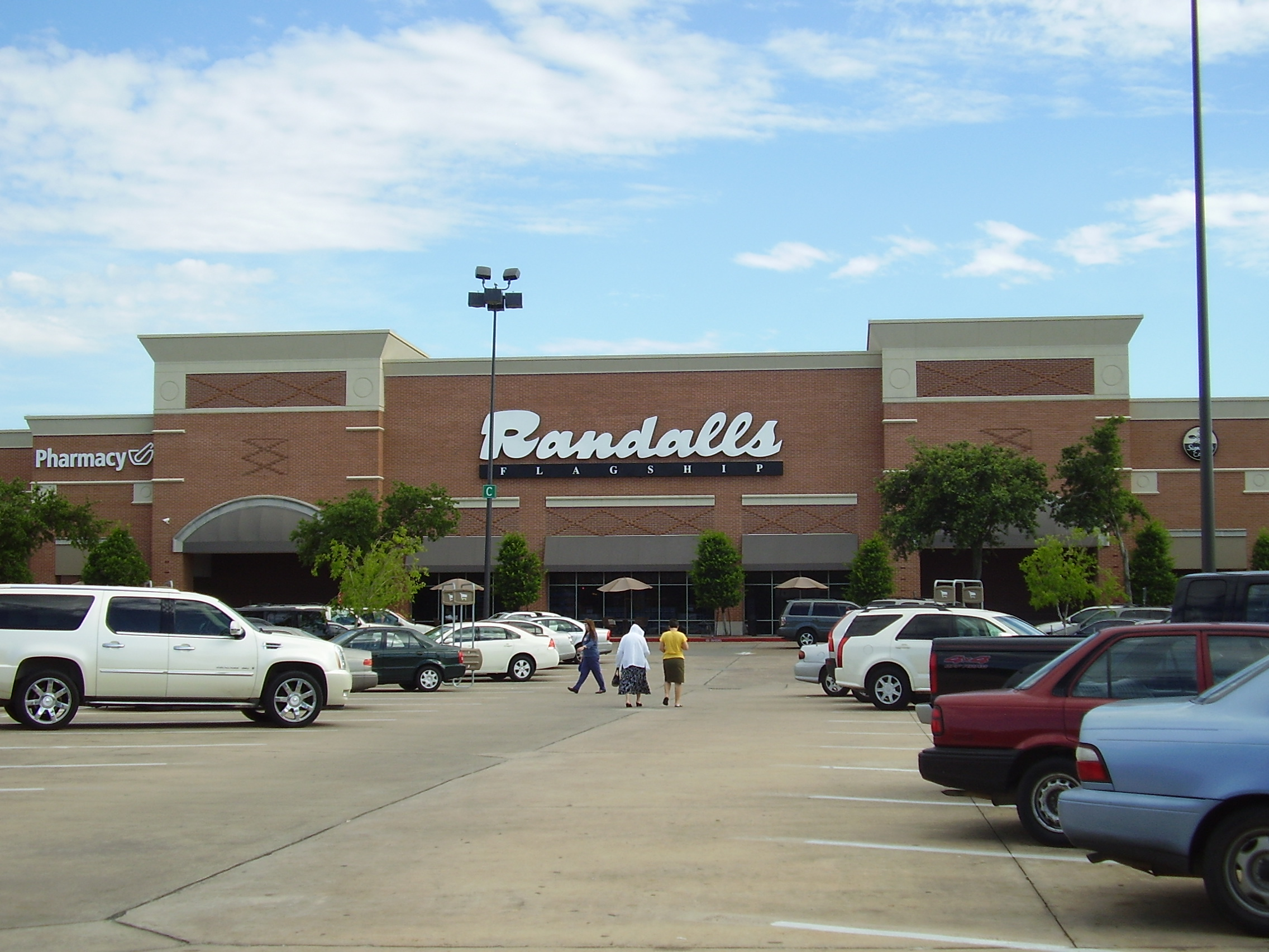 Randall's Flagship location in Houston